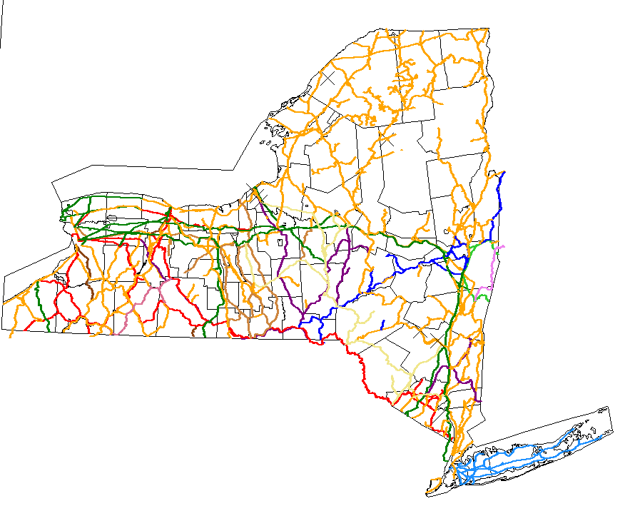 This image has been constructed by myself from data I digitized myself using public-domain USGS maps. Key 'BnO': 'saddlebrown', 'BnM': 'limegreen', 'DnH': 'blue', 'DLnW': 'purple', 'EL': 'Red', 'LV': 'peru', 'NYOW': 'khaki', 'PSnN': 'palevioletred', 'NYC': 'green', 'NYNHnH': 'purple', 'PRR': 'dodgerblue', 'LIRR': 'dodgerblue', 'Rutland': 'plum', 'small': 'orange'